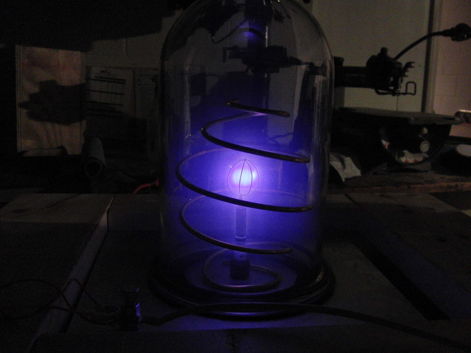 A homemade IEC fusion reactor created by a high school student, William Jack, clearly showing the plasma and poissors emanating from it.